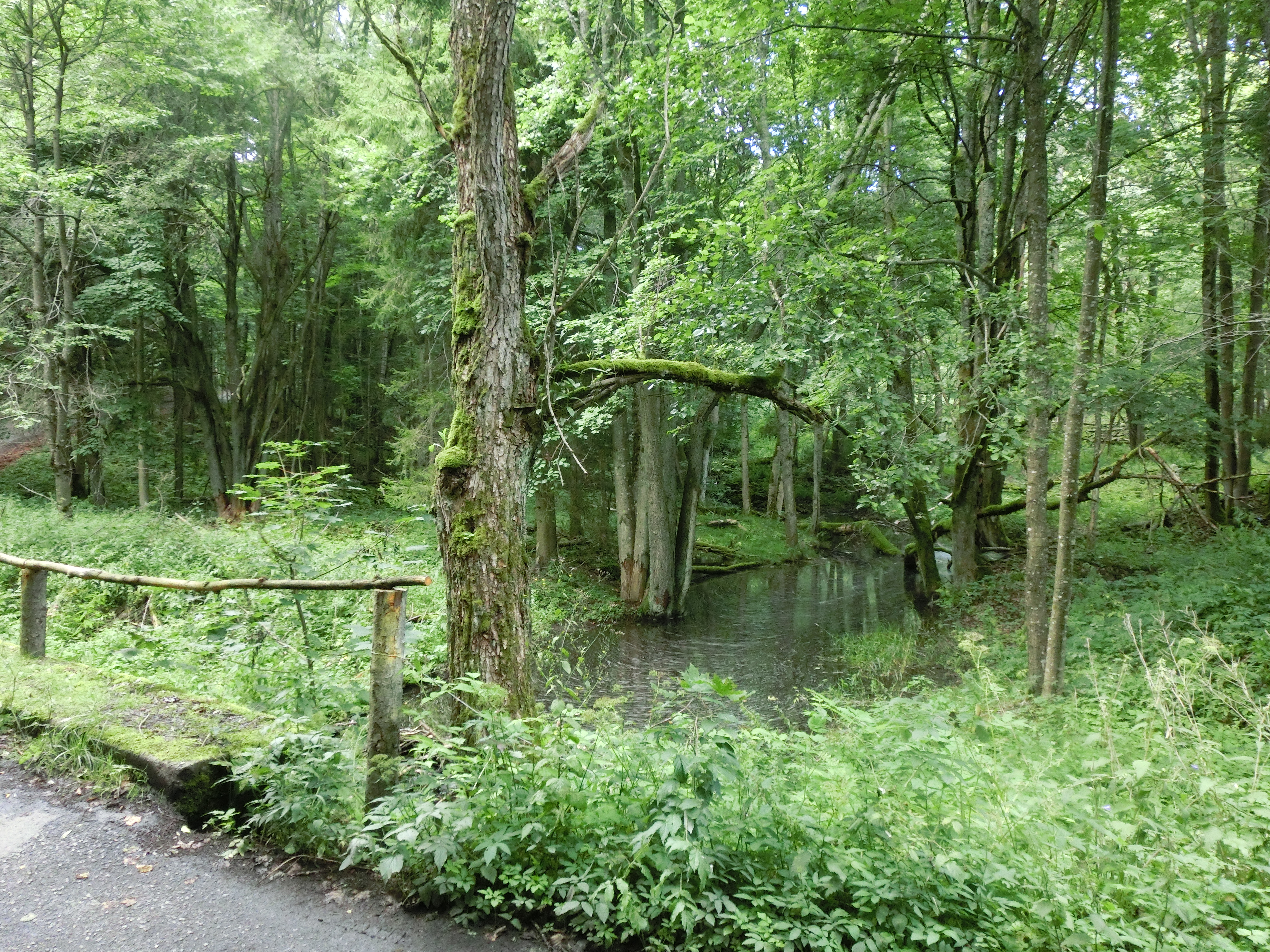 Rehlingbach (Hraniční potok) at the abandonned village Hraničky (germanː Reichenthal)